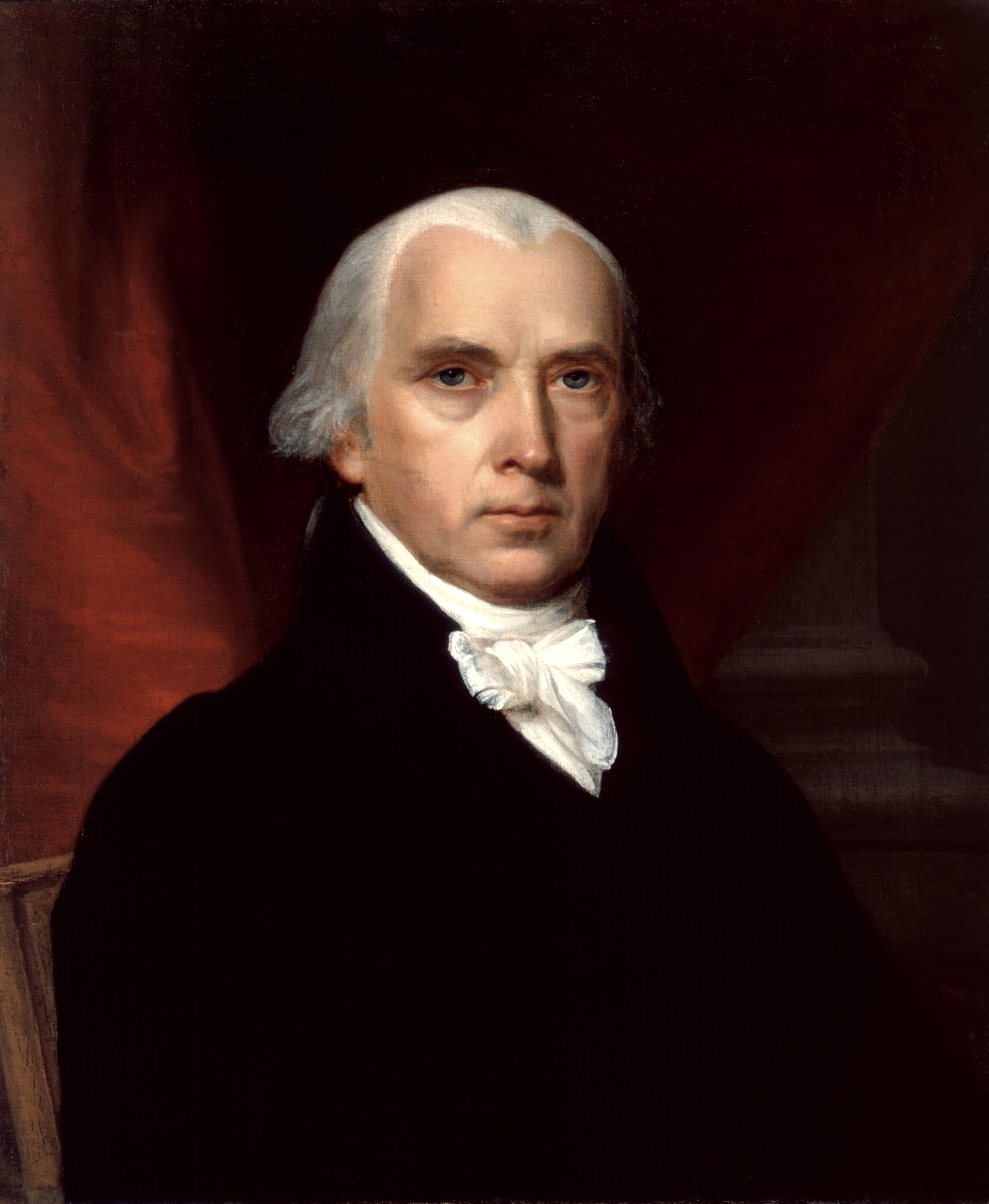 Portrait of James Madison, one of the authors of the Federalist Papers, and the fourth President of the United States